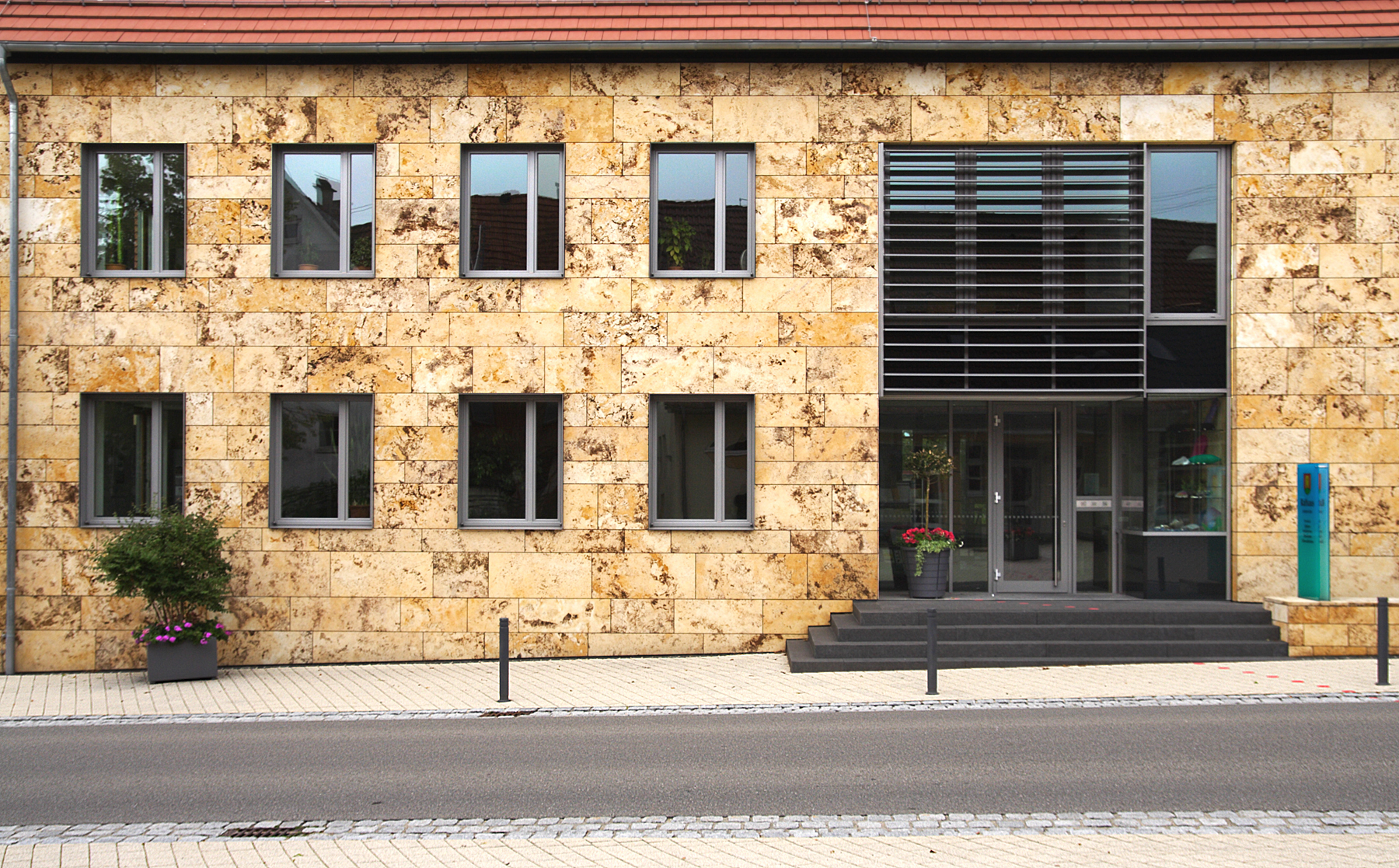 Hohensteins new town hall is covered with plates of travertine, a karst product, sedimented in turbulent river sections and behind huge karst springs. When wet, travertine can easily be sawn. The dry material is extremely consolidated and weatherproof. The cavities and impurities - remnants of debris and biotic materials - make the plates very decorative and yet porous and thus lightweight.